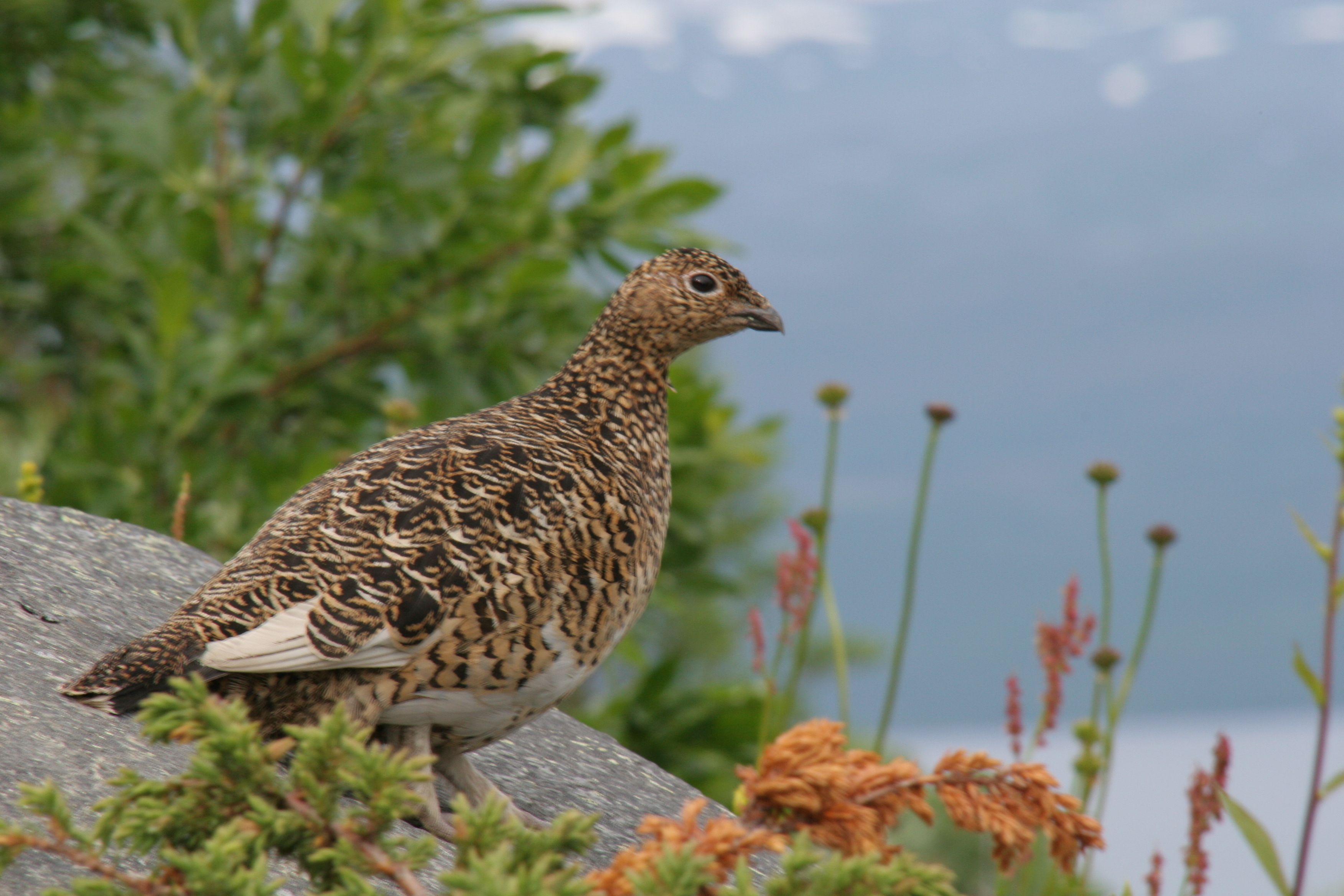 Lagopus in Abisko national park